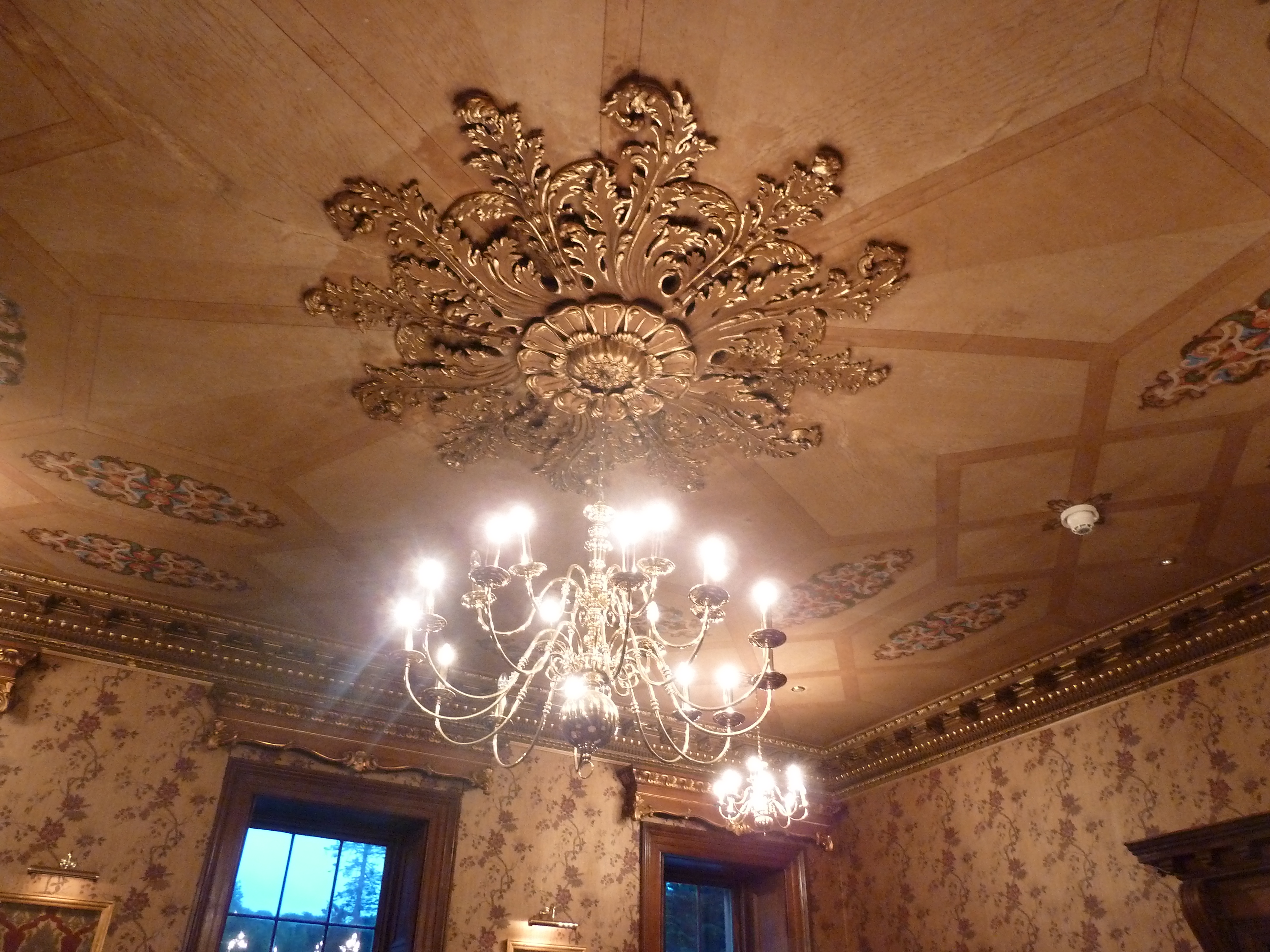 Chandelier and ceiling rose, Glynllifon At the Midsummer Masque event, 2012